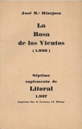 cover page of La Rosa de los Vientos by Jose Maria Hinojosa, a book published in Spain in 1927